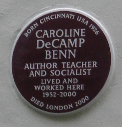 Caroline Benn blue plaque, 12 Holland Park Avenue, Notting Hill, London This image represents an Open Plaques entry #3672.